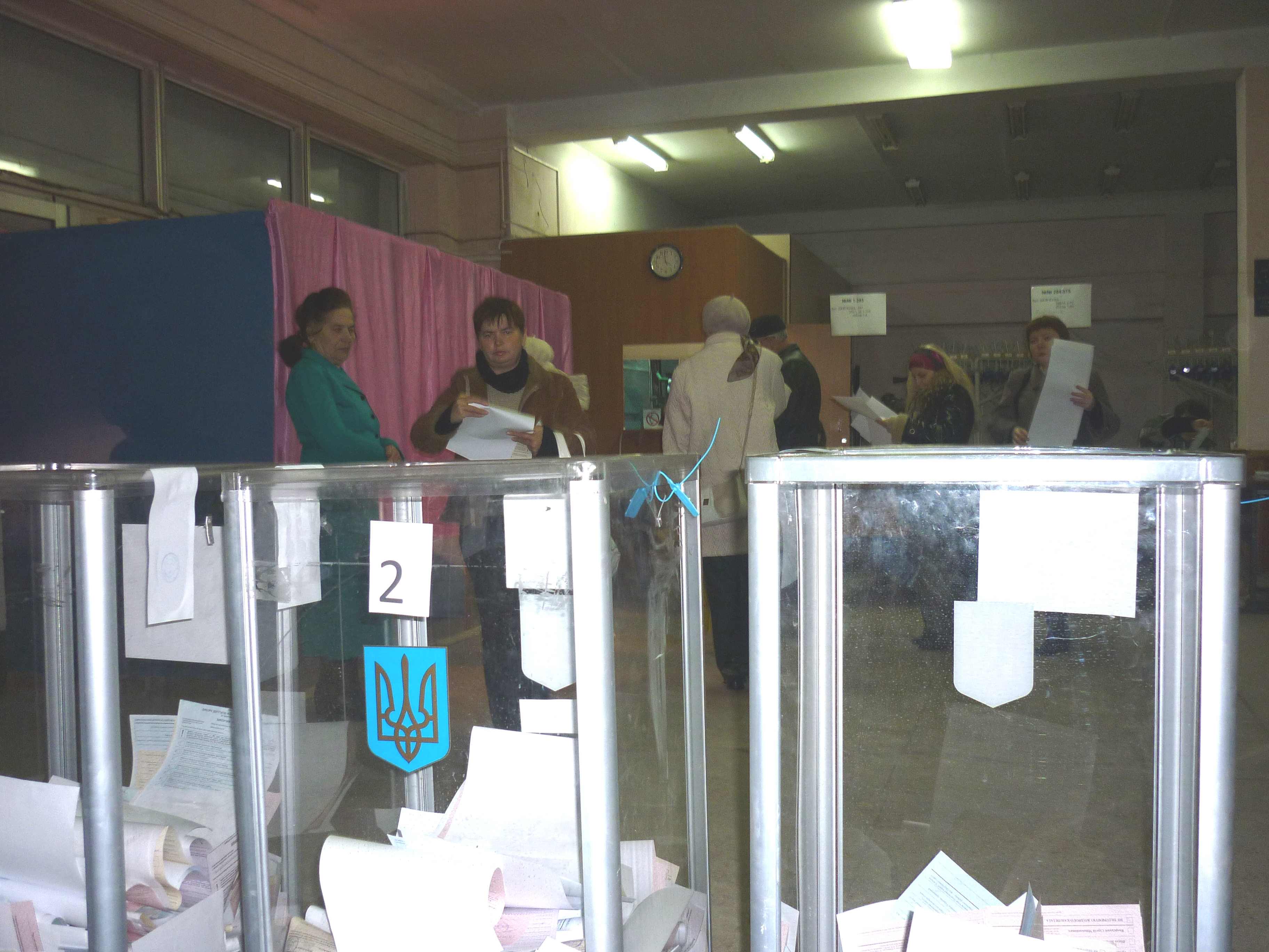 Election in Cherkasy 2010/ Election bags